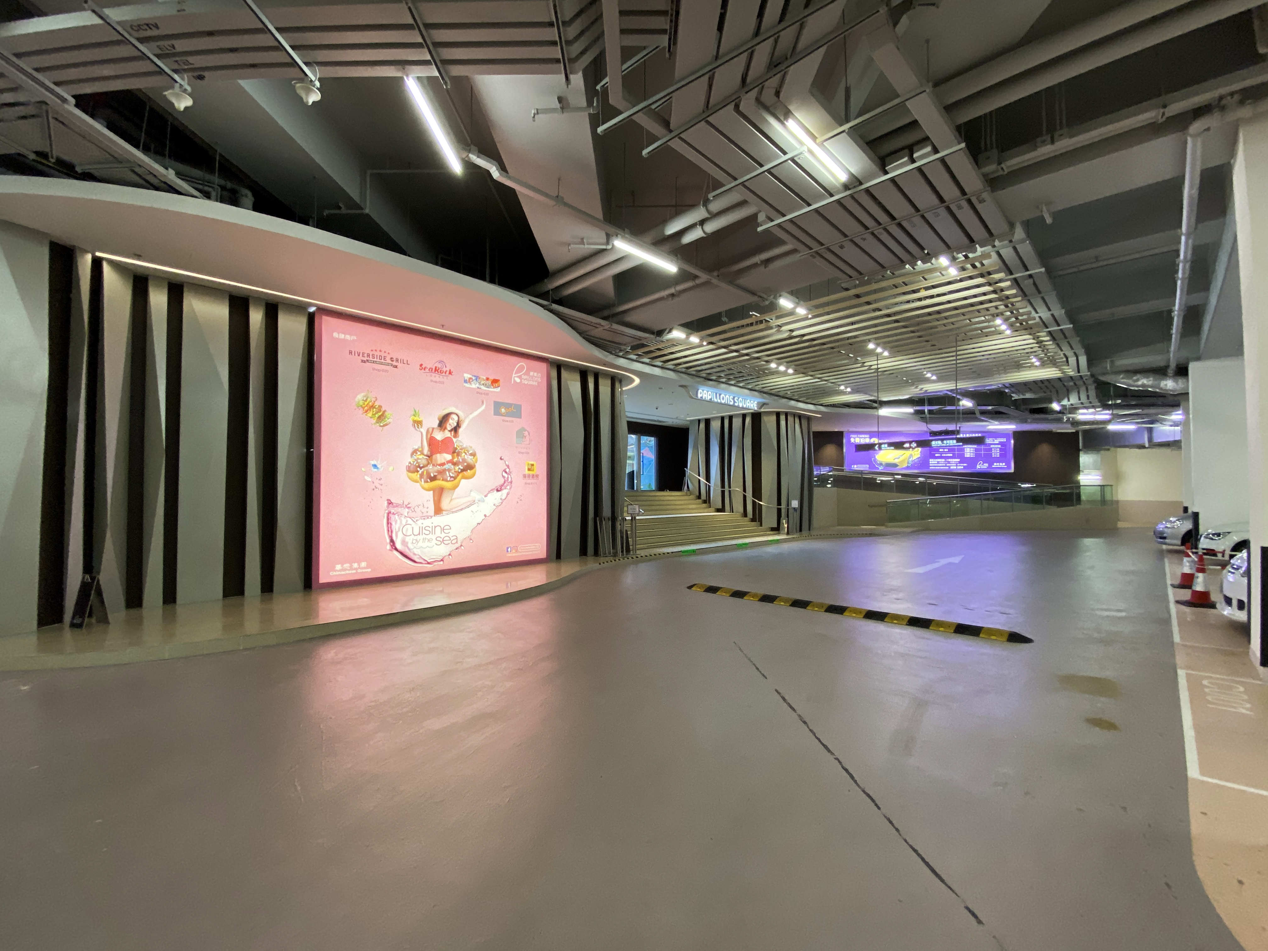 The Papillons Basement drop off area